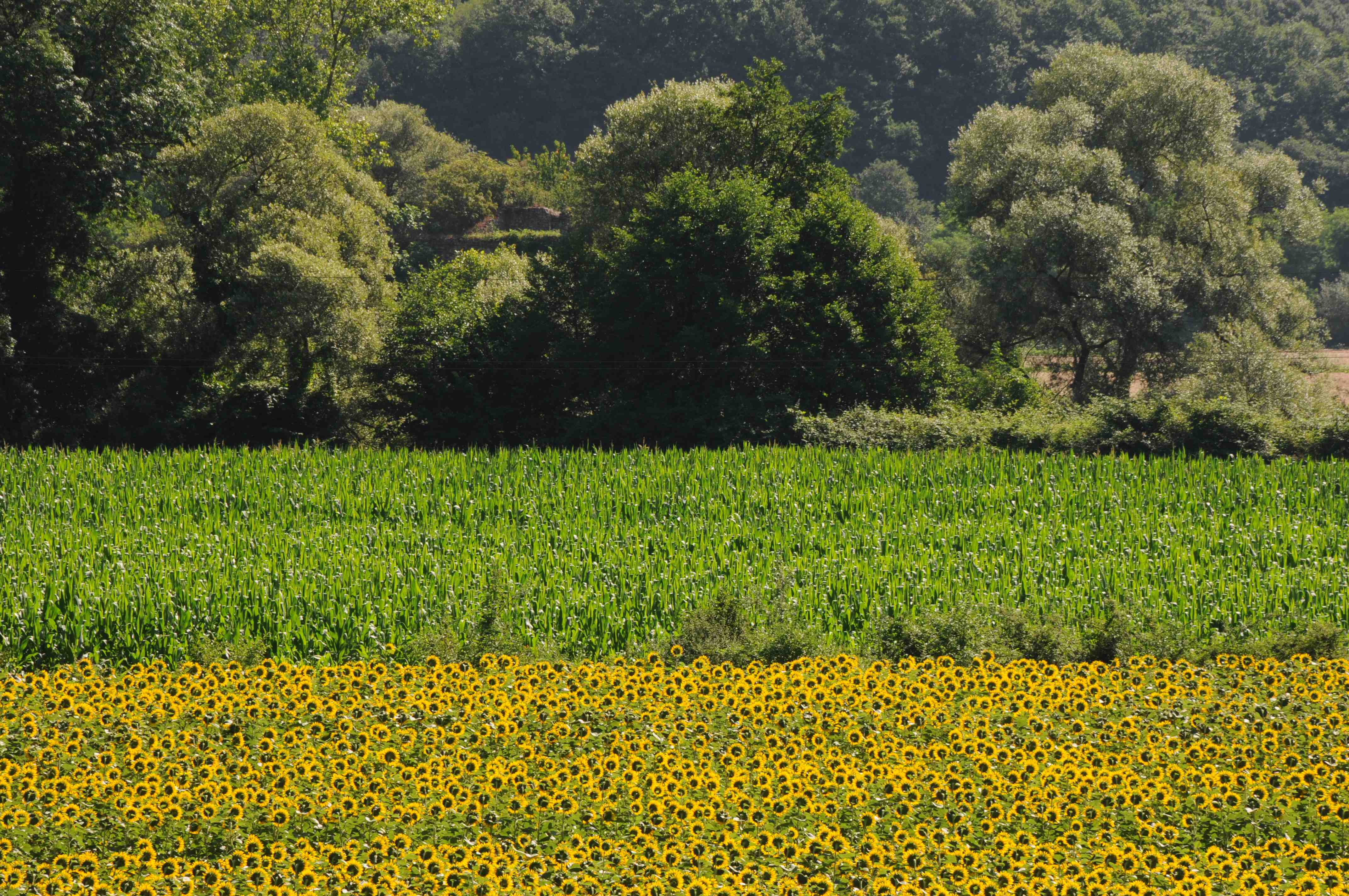 Rieti Plain (Rieti Valley), also known as Holy Valley - Province of Rieti